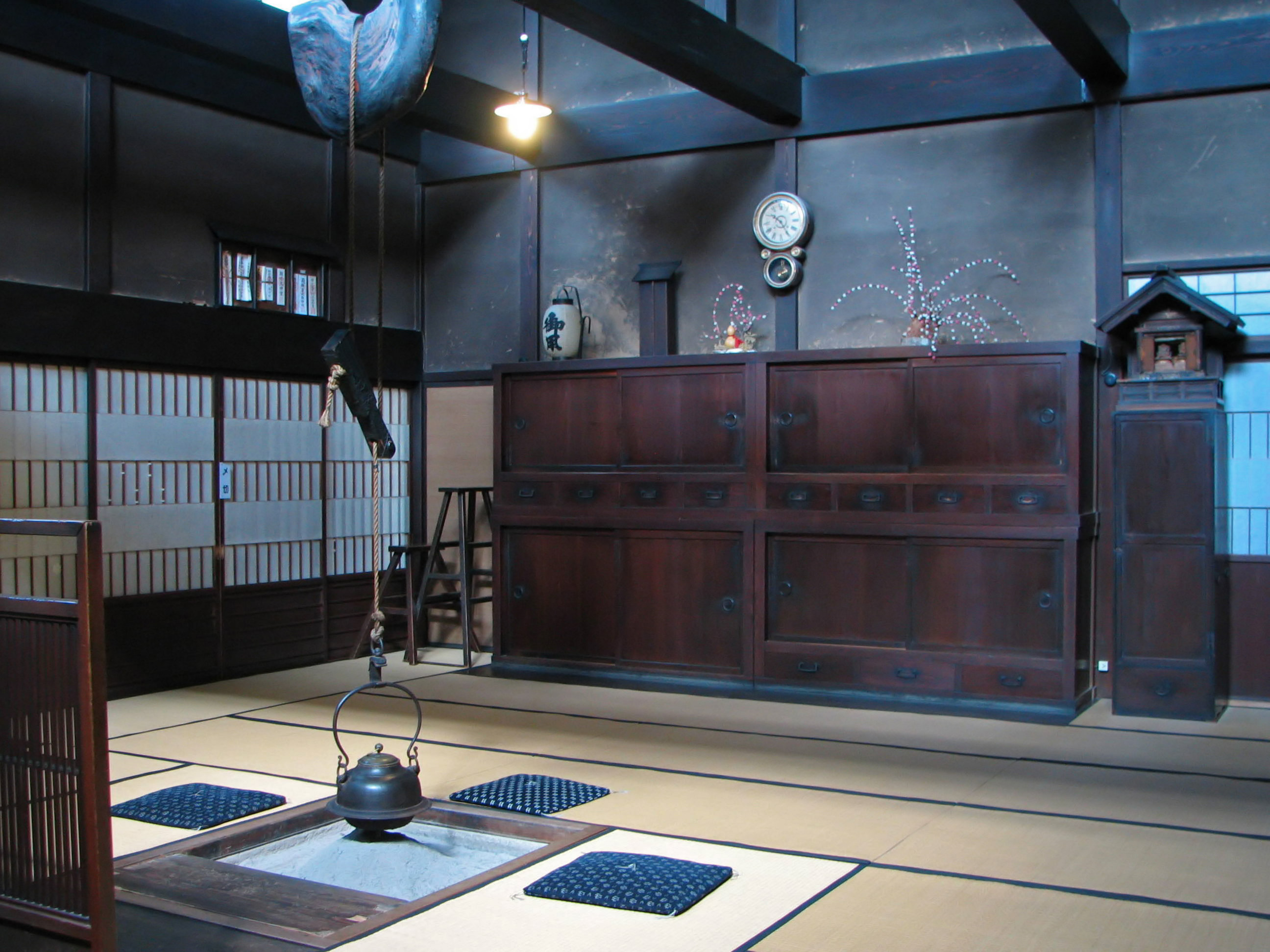 The daidokoro (family room) of Kusakabe House bult in 1879, Takayama, Gifu Prefecture, Japan